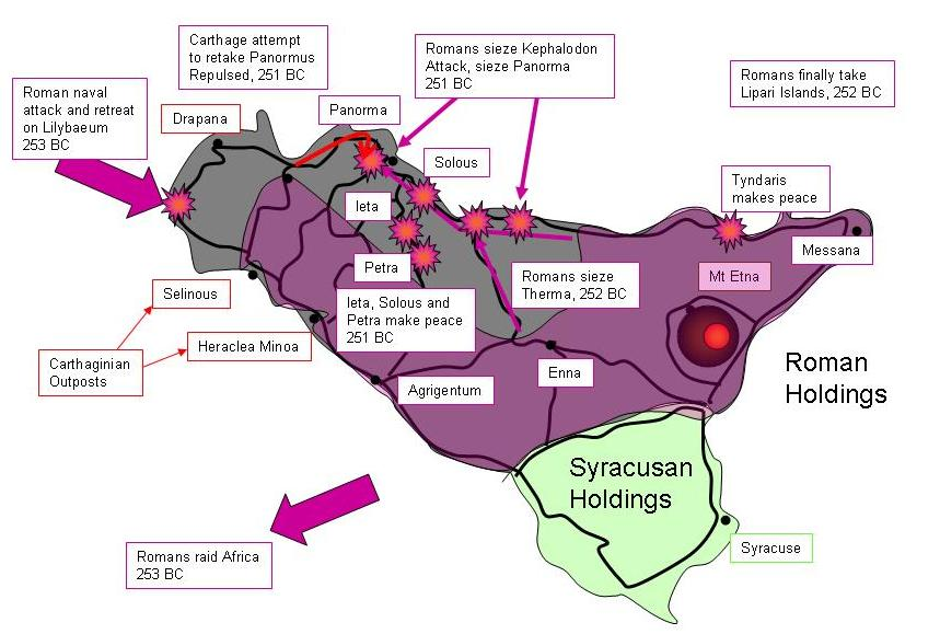 A map of Sicily showing Rome and Carthage's territories, movements and the main military clashes 253–251 BC.